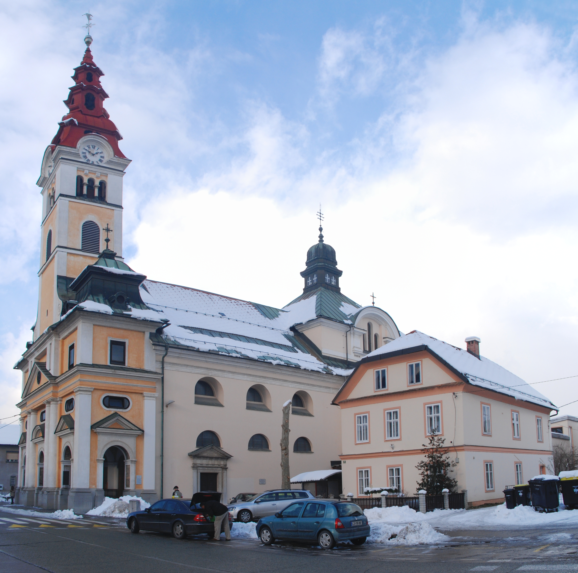 St. Vitus's Parish Church and the parish house in Šentvid, Ljubljana (Slovenia).